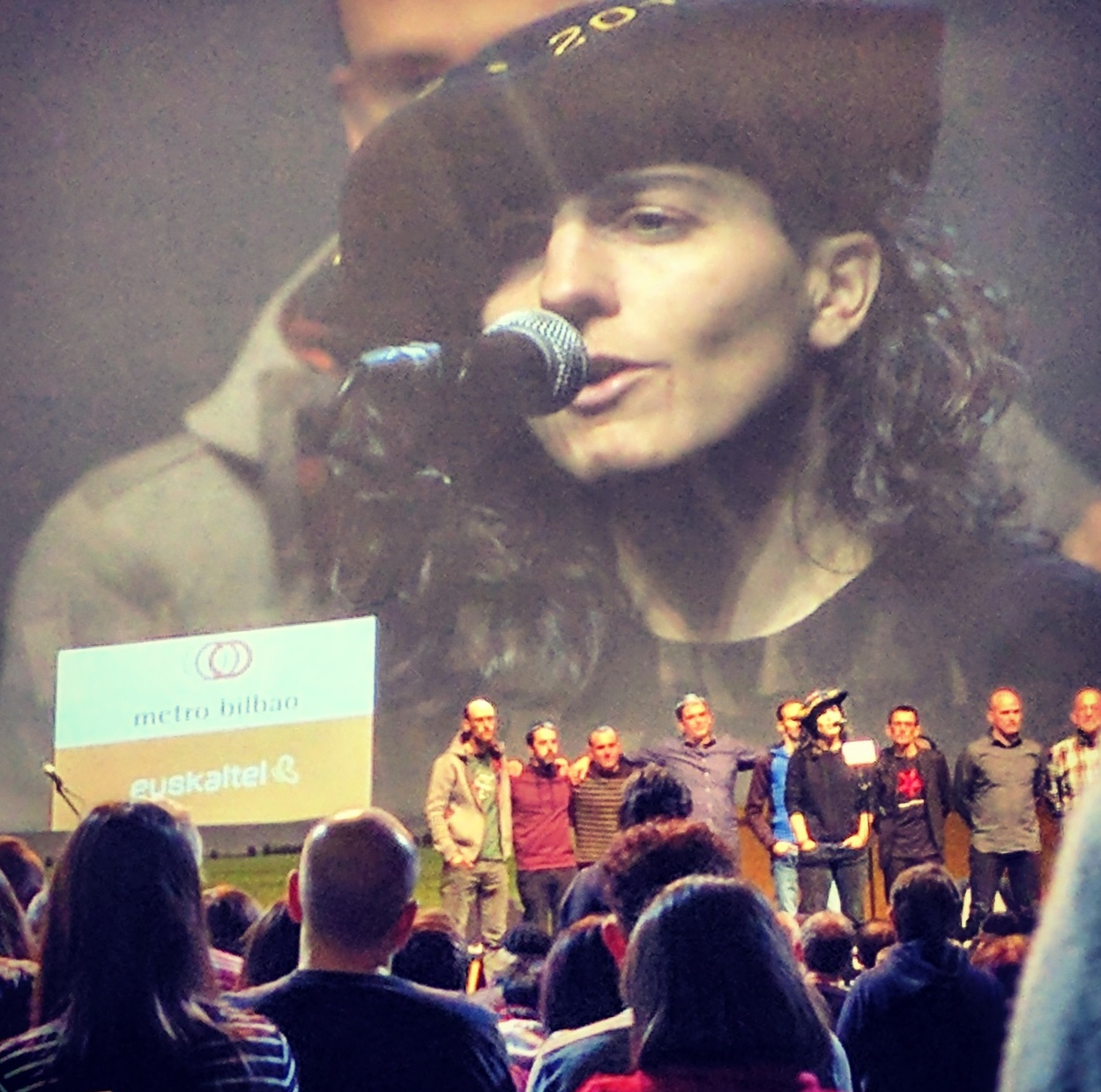 Maialen Lujanbio celebrating winning the 2017 Bertsolari contest